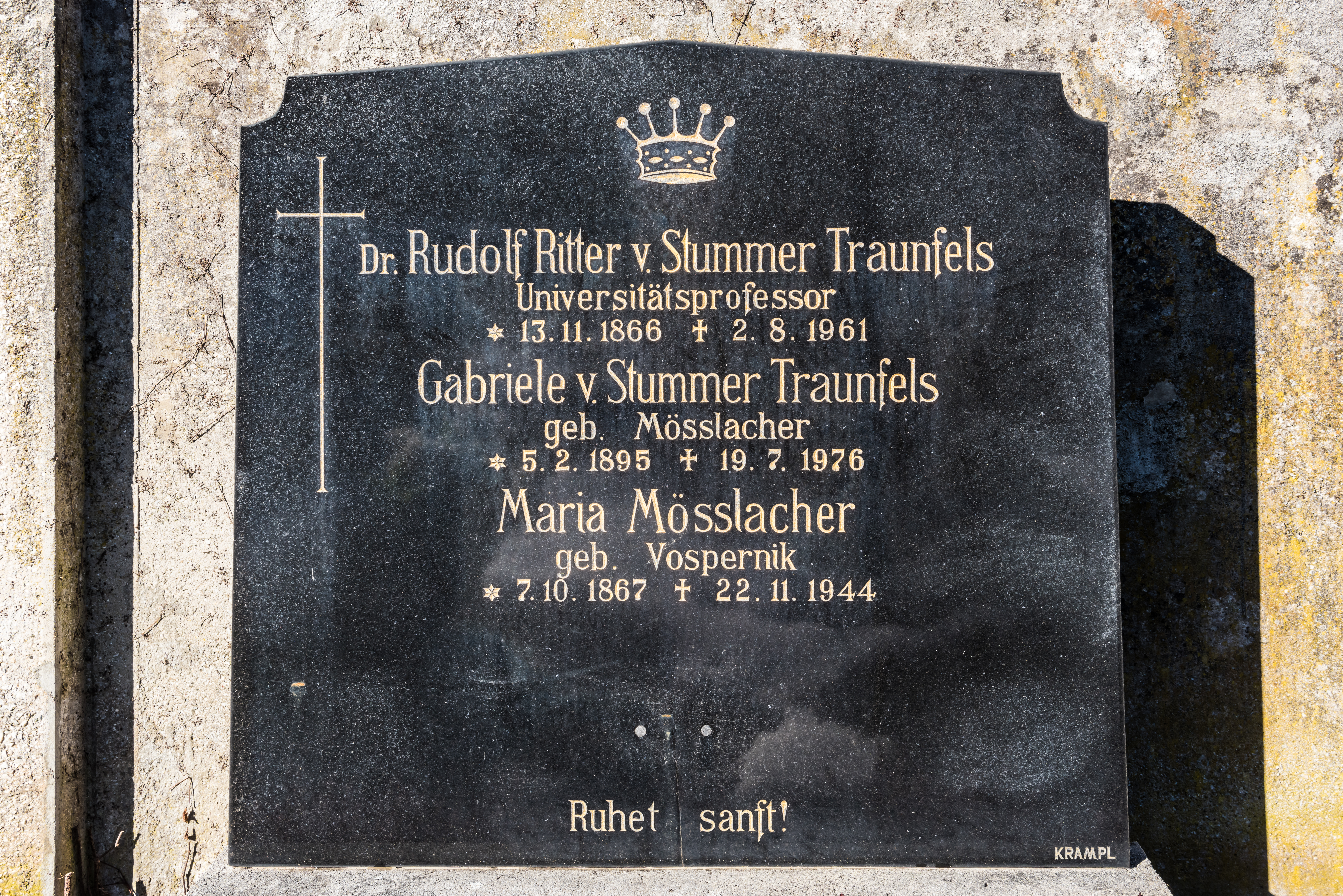 Gravestone of the family von Stummer Traunfels on the cemetery on Gedächtnisweg, market town Velden am Wörther See, district Villach Land, Carinthia, Austria, EU